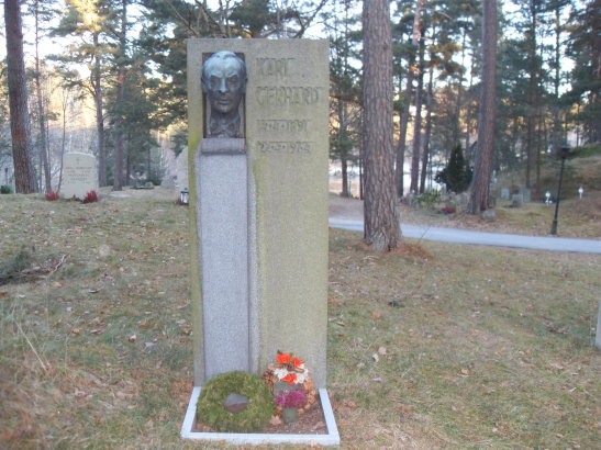 kgs grave